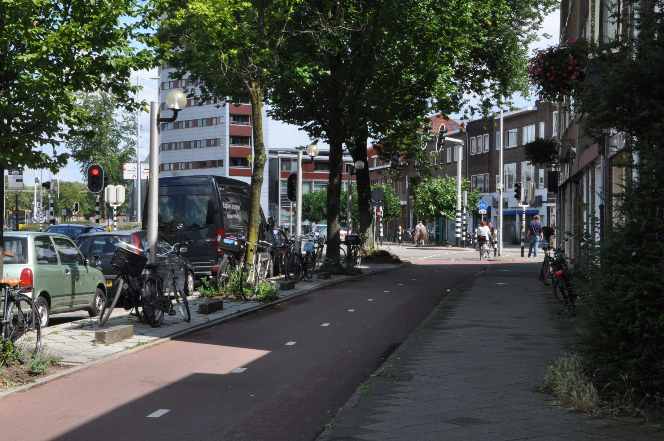 A bicycle path separated from motor traffic in both space and time, by a row of parking, and protected signal phases, respectively.